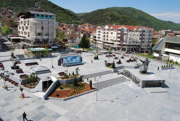 Square Goce Delcev (Strumica)